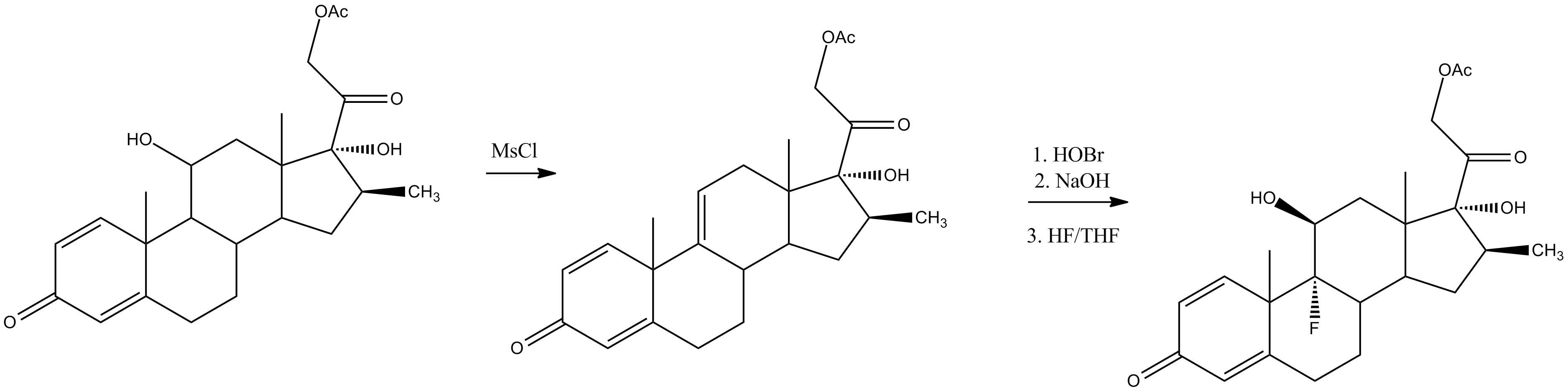 Arth, G. E.; Johnston, D. B. R.; Fried, J.; Spooner,W.; Hoff, D.; Sarett, L. H.; Silber, R. H.; Stoerk, H. C.; Winter, C. A.; J. Am. Chem. Soc. 1958, 80, 3161.